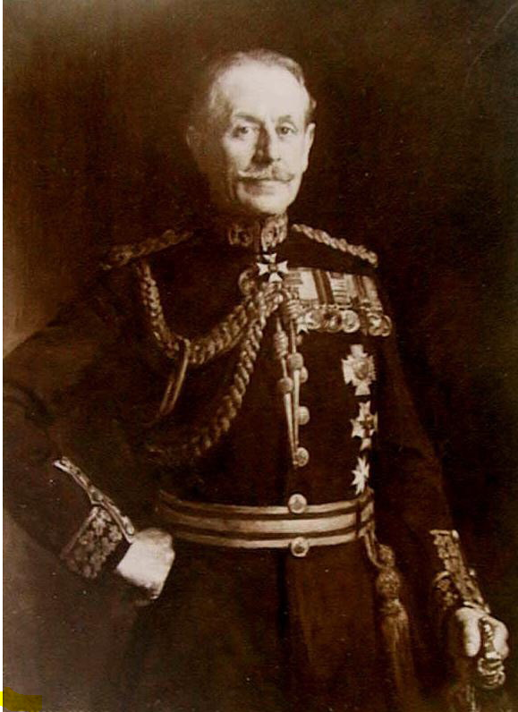 Portrait of Sir Neville Francis Fitzgerald Chamberlain